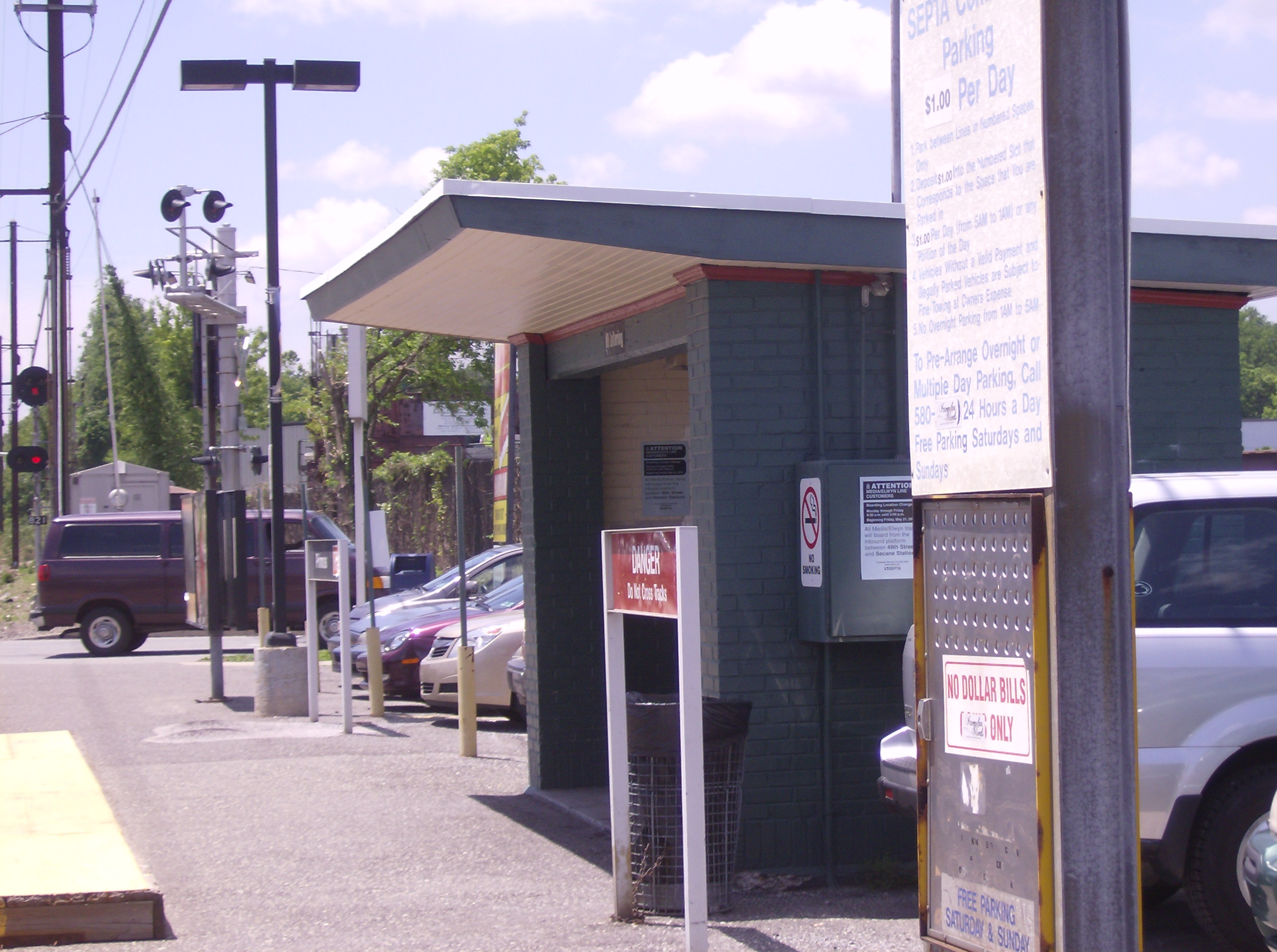 Primos train station